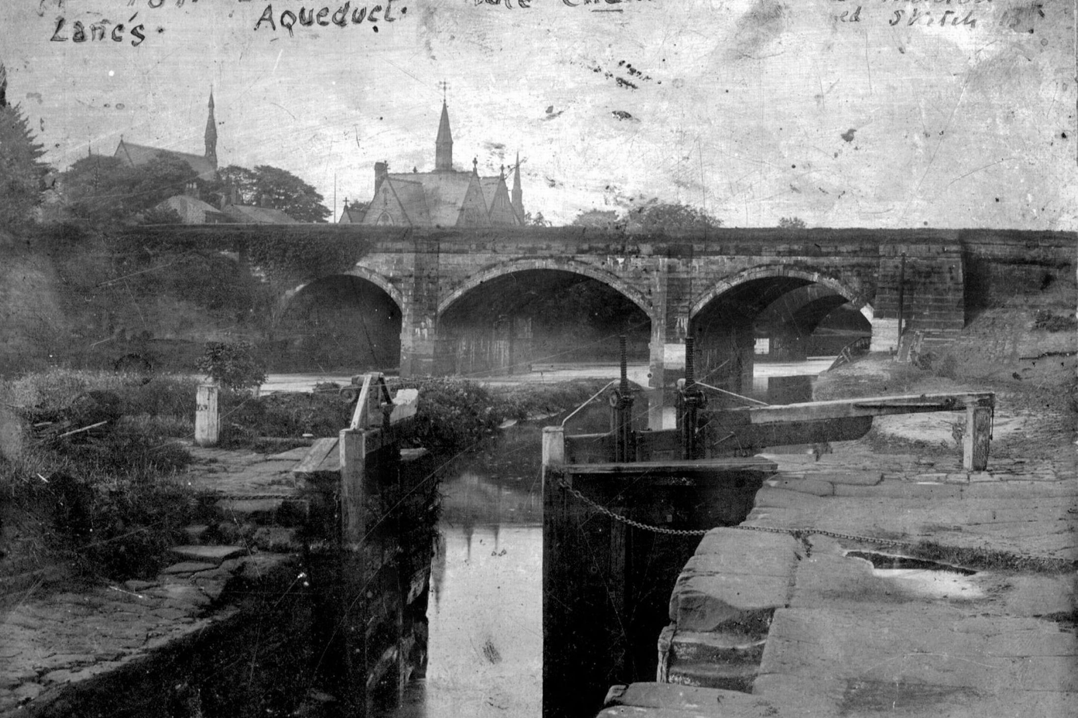 Brindley aqueduct pictured behind a lock on the Mersey and Irwell Navigation